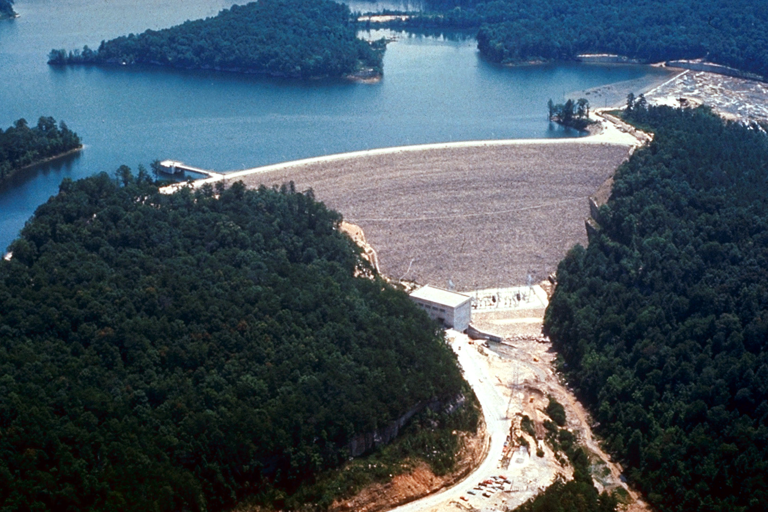 Aerial view of Laurel River Dam and Lake on the Laurel River above the confluence with the Cumberland River near Corbin, Kentucky, USA. The U.S. Army Corps of Engineers completed the dam and the lake impounded in 1974. The dam is 282 feet (86 m) high and 1,420 feet (433 m) long. The hydroelectric plant in the dam produces 74 MW of electric power.